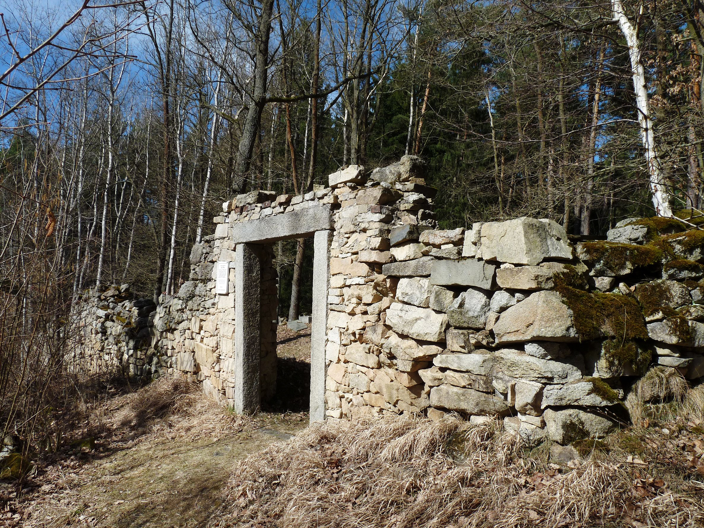 Jewish cemetery by the municipality of Slatina, Klatovy District, Czech Republic - entrance